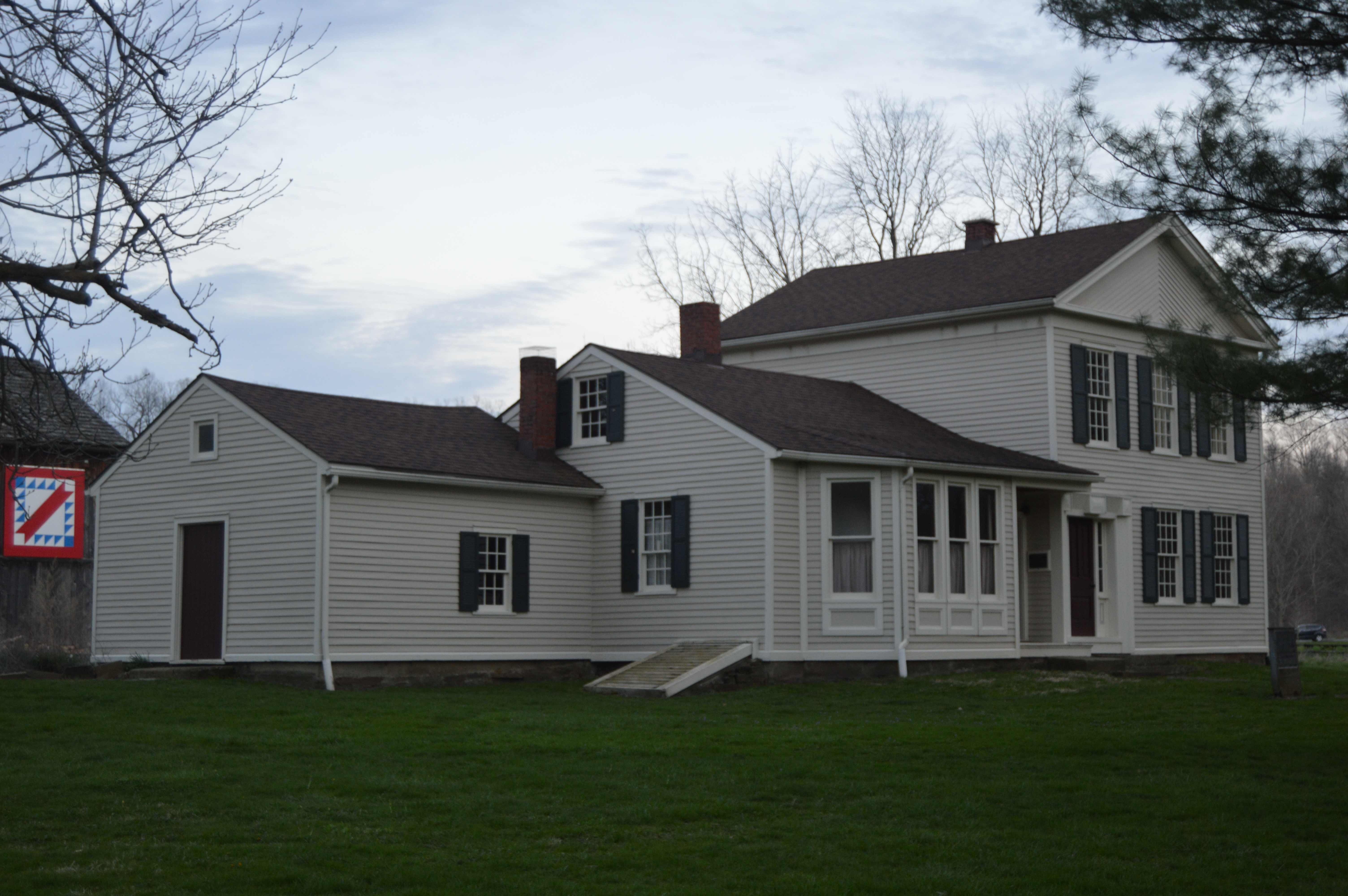 Front and eastern end of the Mill Hollow House, located at the Vermilion River Reservation south of Vermilion in Brownhelm Township, Lorain County, Ohio, United States. Built in 1845, it is listed on the National Register of Historic Places.